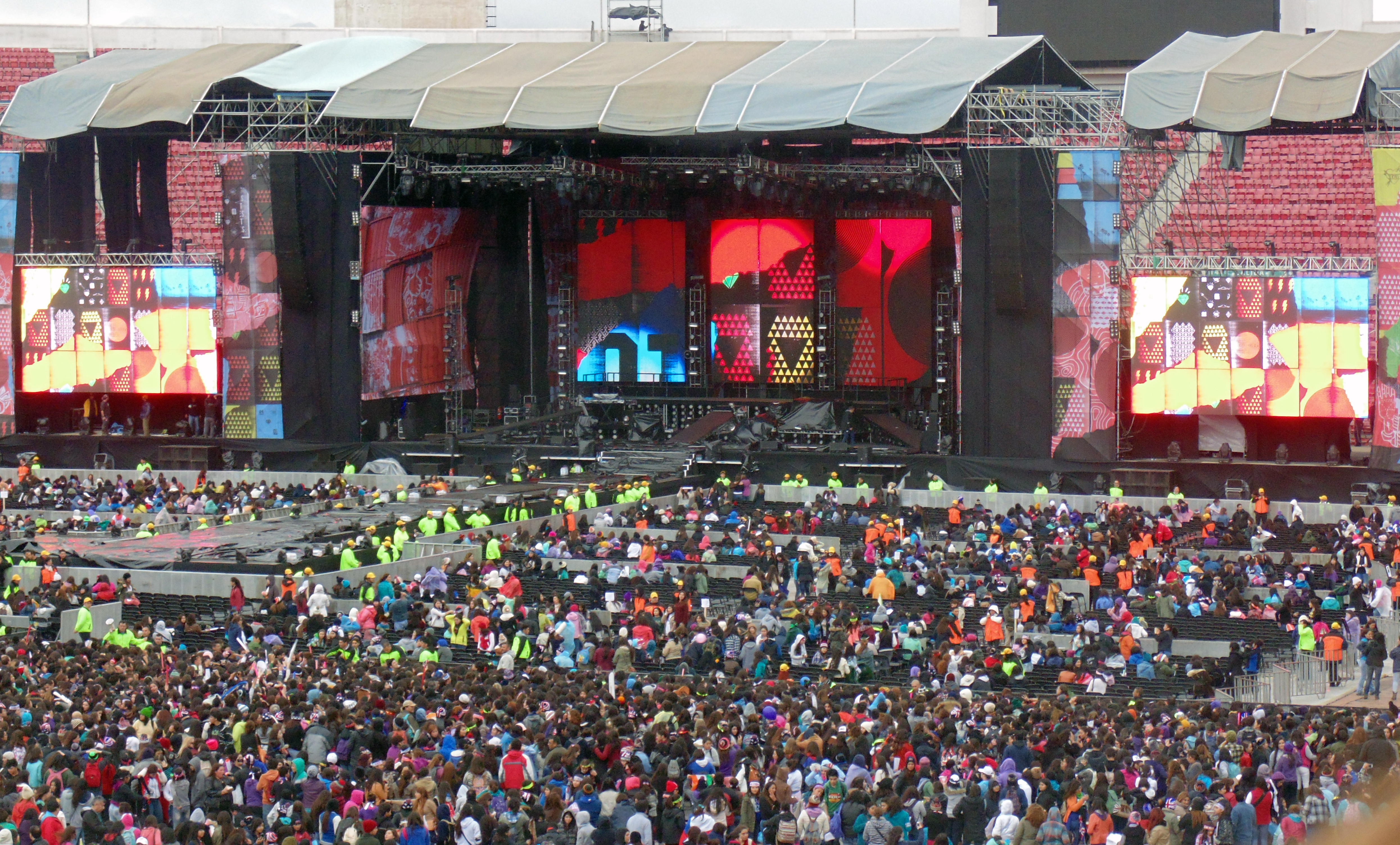 Stage used by British boy-band One Direction during their Where We Are Tour, as people wait for the show in Santiago, Chile. May 1, 2014.